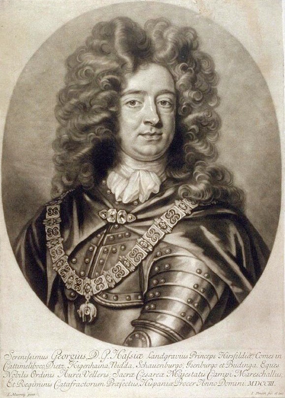 Portrait of Prince George of Hesse-Darmstadt (1669-1705)